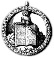 From Das verbesserte System der Illuminaten. This is the original insignia of the Bavarian Illuminati. It pictures the owl of Minerva - symbolising wisdom - on top of an opened book. This version of the owl comes from an early pamphlet, printed around 1788.